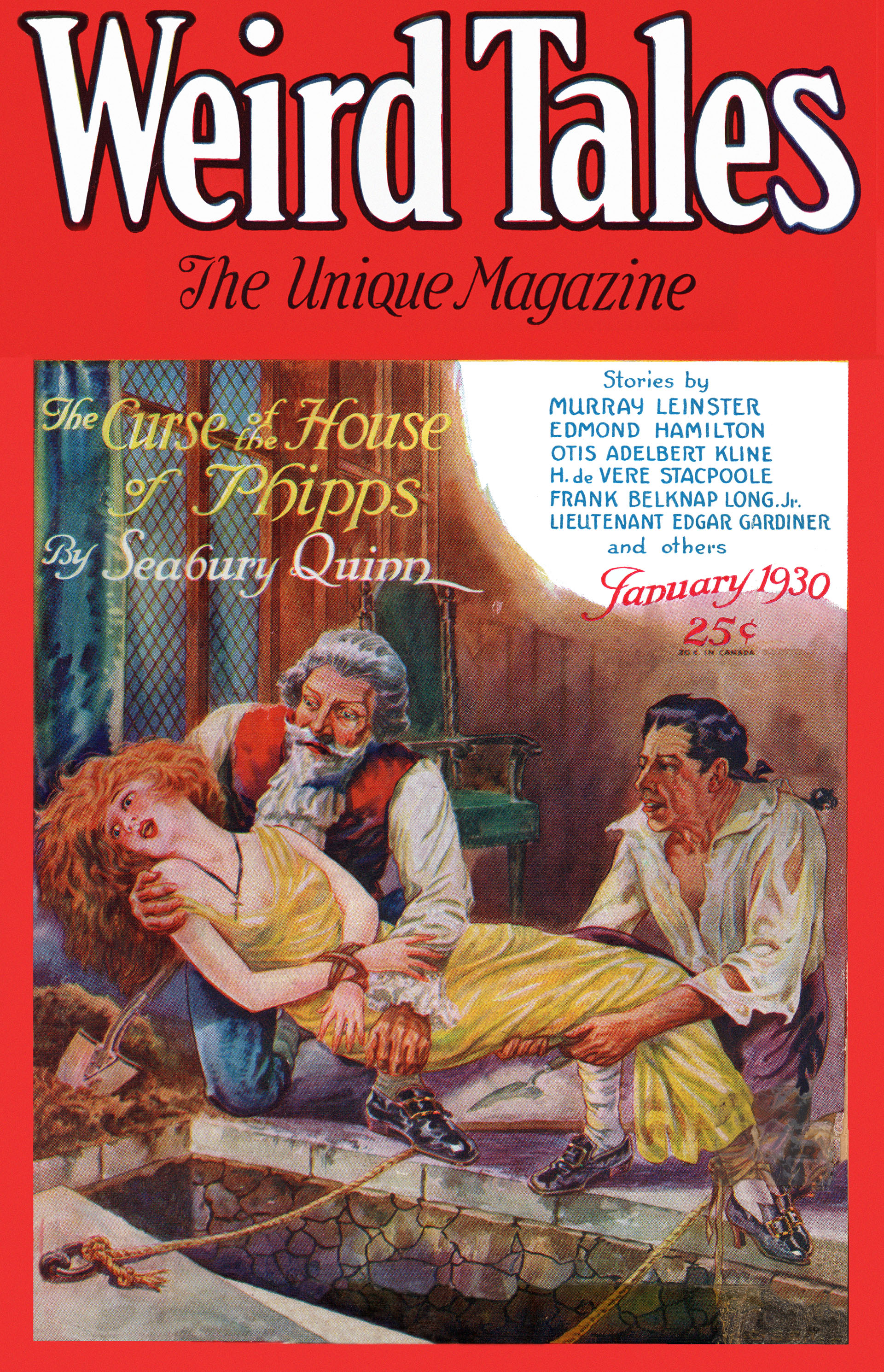 Cover of the pulp magazine Weird Tales (January 1930, vol. 15, no. 1) featuring The Curse of the House of Phipps by Seabury Quinn. Cover art by C. C. Senf.